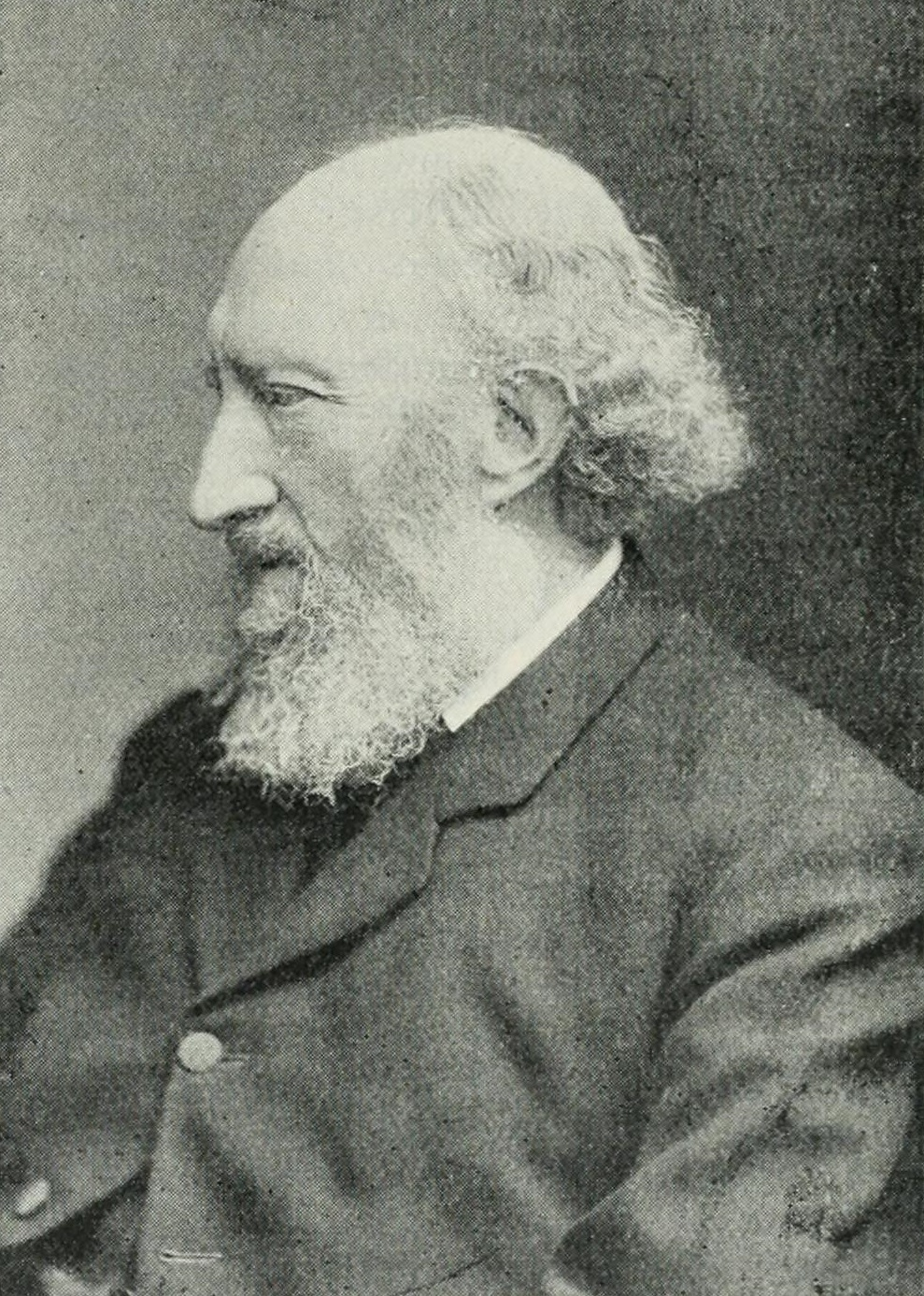 Portrait of Samuel Rawson Gardiner